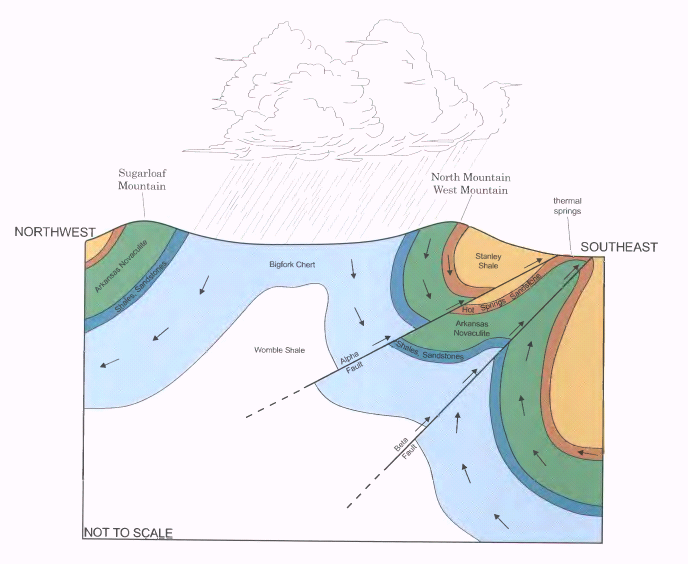 Conceptual model of the thermal water flow system at Hot Springs, Arkansas.